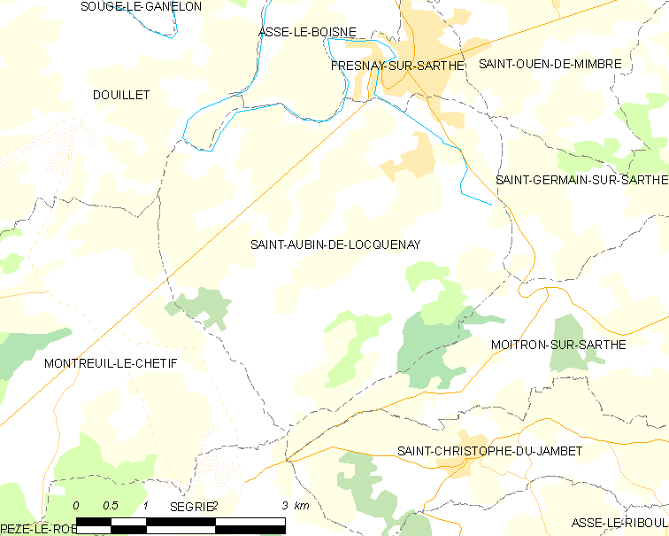 Map of French municipality